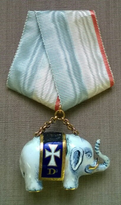 Members' badge of the Chapter of the Royal Orders of Chivalry, which already has been decorated by an Order of the Dannebrog, since 1808 (Denmark)